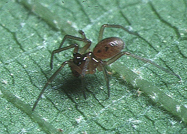 male Callitrichia formosana from Okinawa.